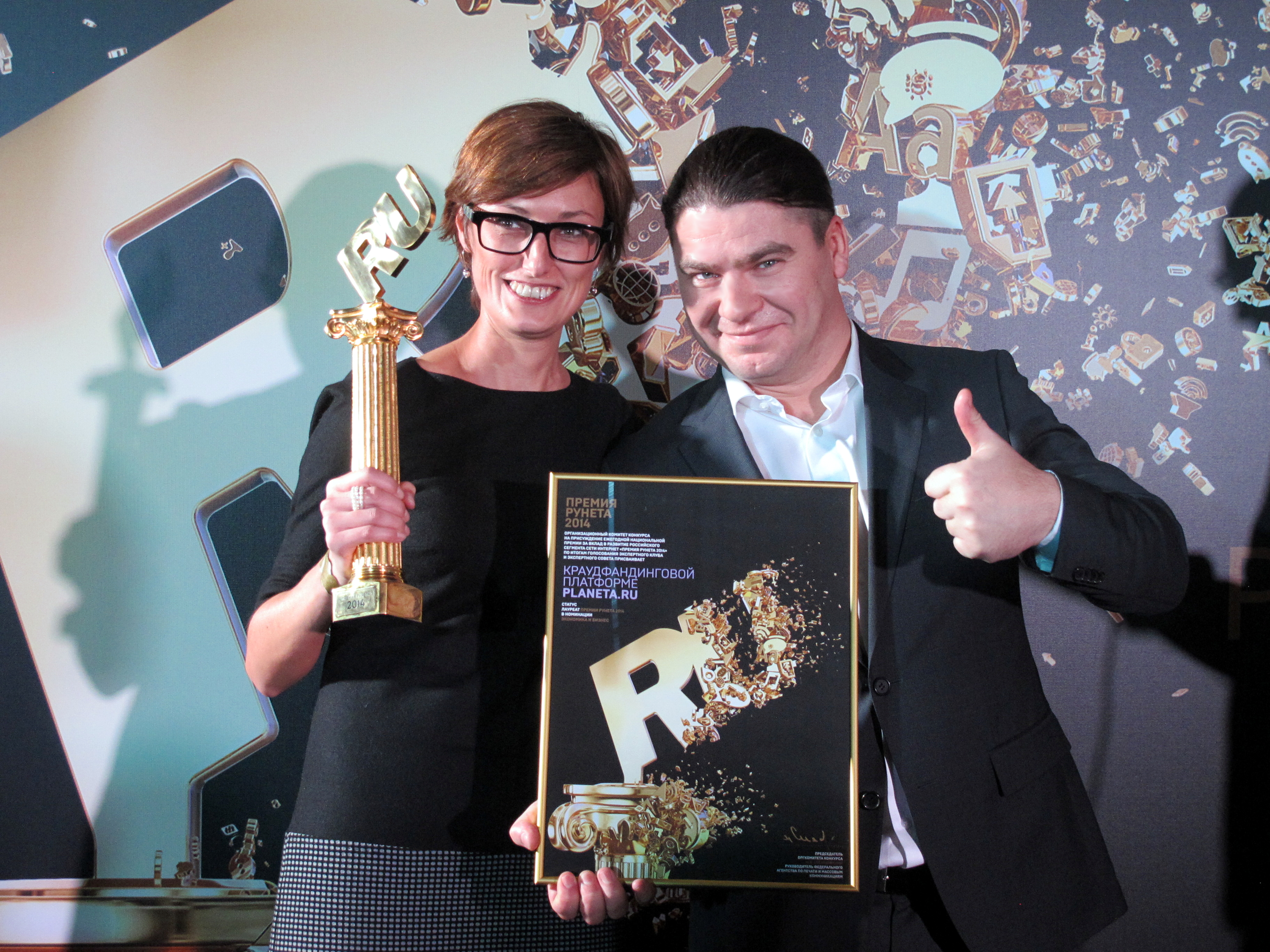 Runet Prize 2014